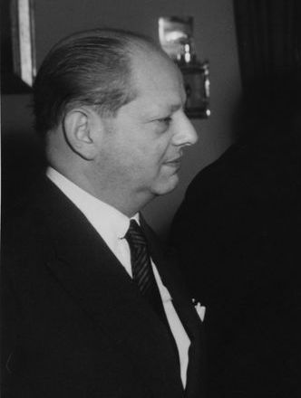 President John F. Kennedy meets with Paul-Henri Spaak, Belgian Minister of Foreign Affairs. (L-R) Baron Robert Rothschild, Chief of the Cabinet; Foreign Minister Spaak; President Kennedy; Belgian Ambassador to the United States Louis Scheyven. Oval Office, White House, Washington, D.C. Abbie Rowe. White House Photographs. John F. Kennedy Presidential Library and Museum, Boston